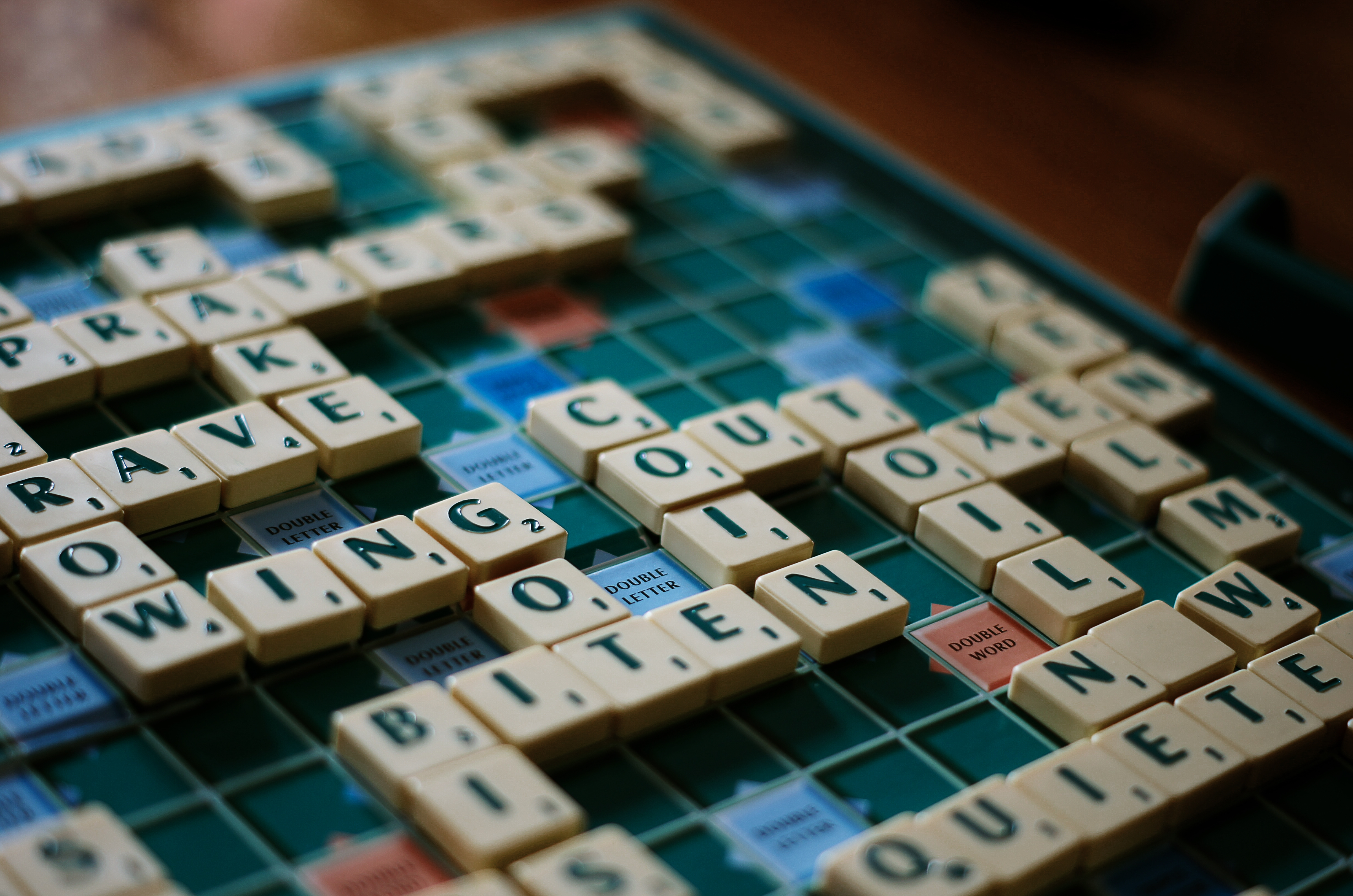 An English-language Scrabble game in progress.